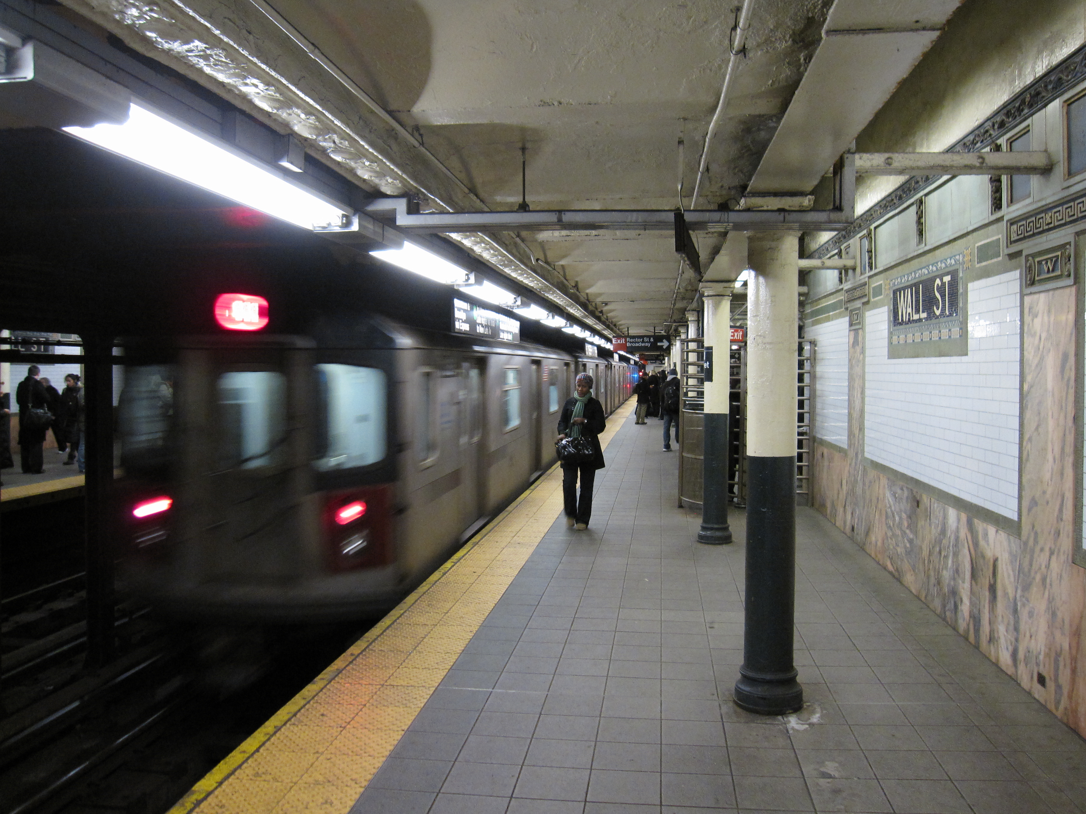 Wall Street (IRT Lexington Avenue Line) with number 4 downtown.